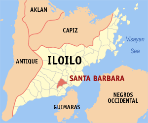 Map of Iloilo showing the location of Santa Barbara